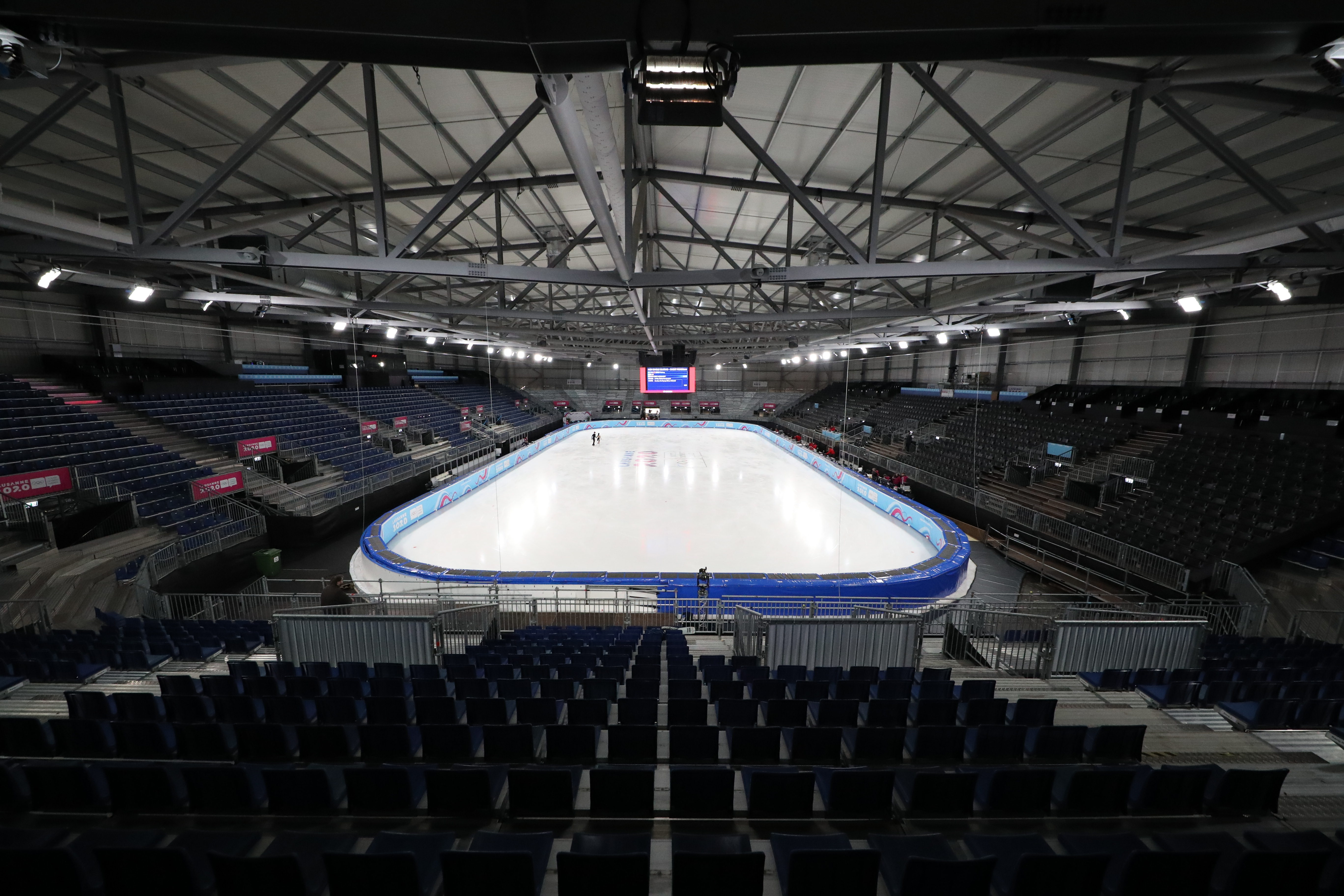 Lausanne Skating Arena (Patinoire de Malley)